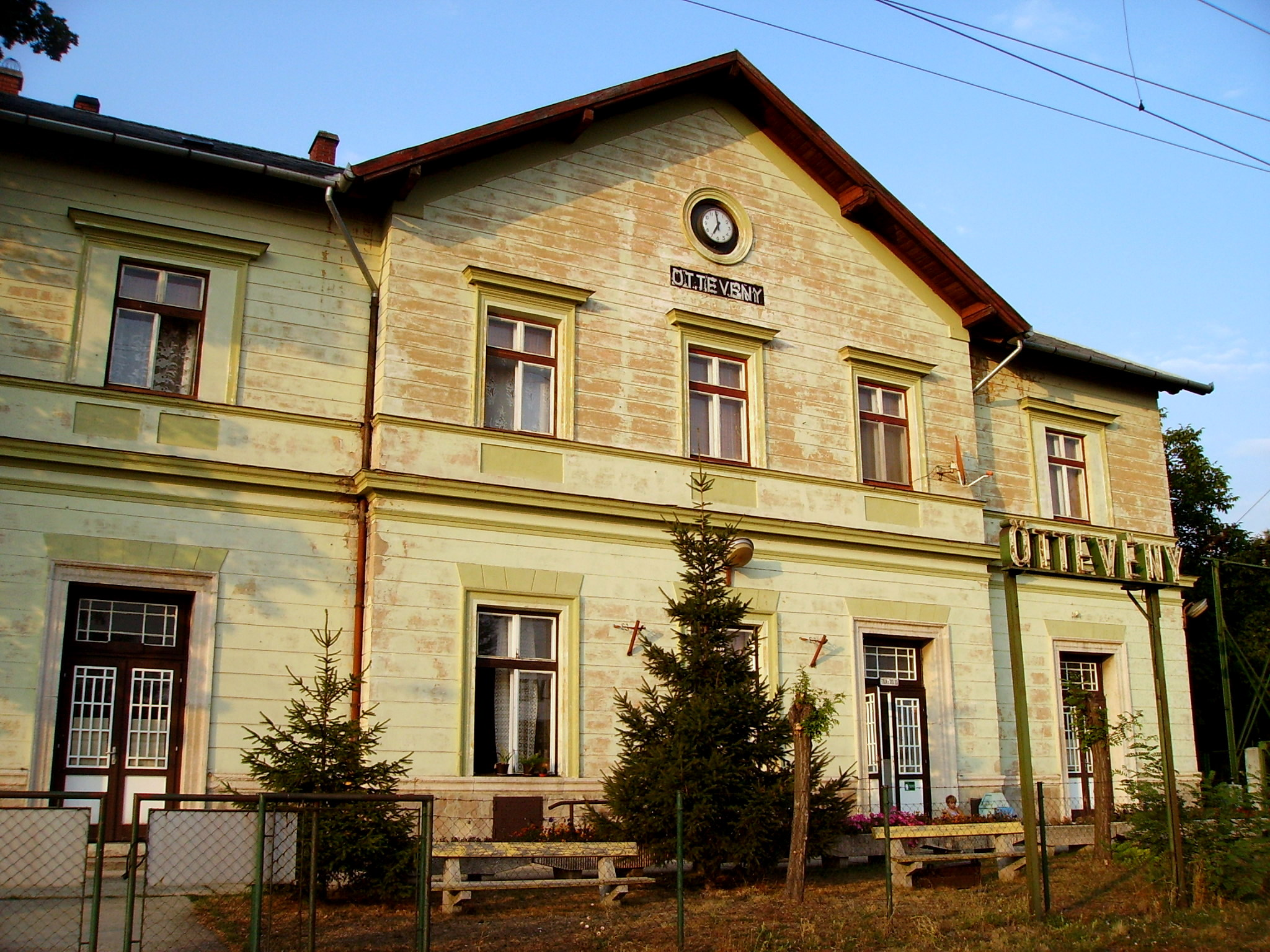 Railway Station in Öttevény, Northwestern Hungary.